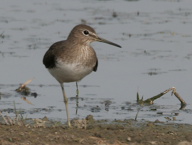 Green Sandpiper Tringa ochropus near Hodal, Faridabad, Haryana, India.